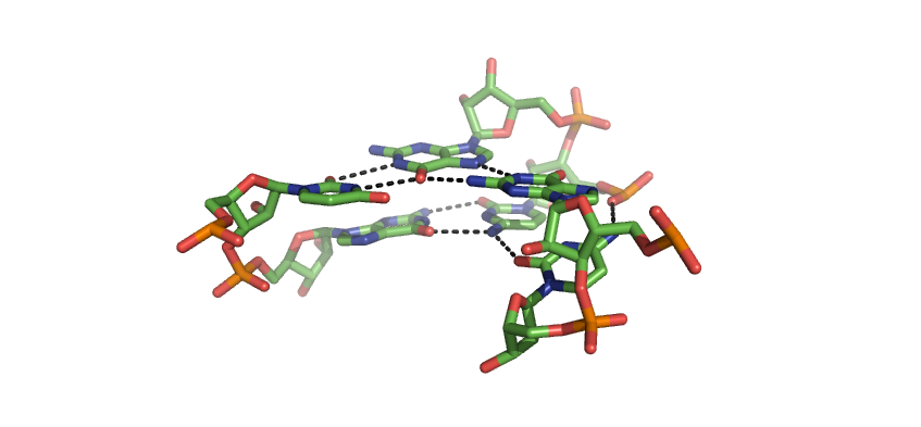 Major groove triple